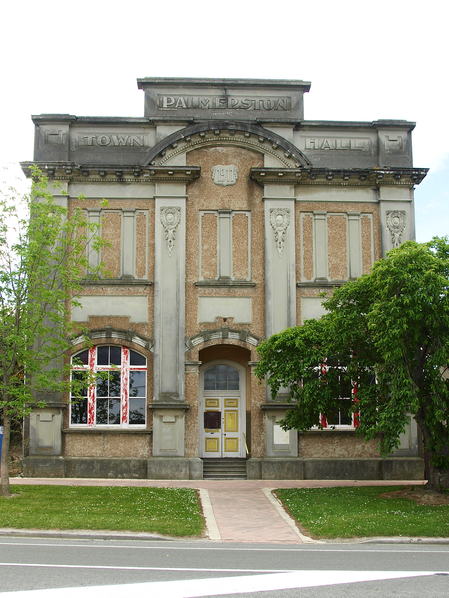 Palmerston Town Hall, Palmerston, Otago, South Island, New Zealand